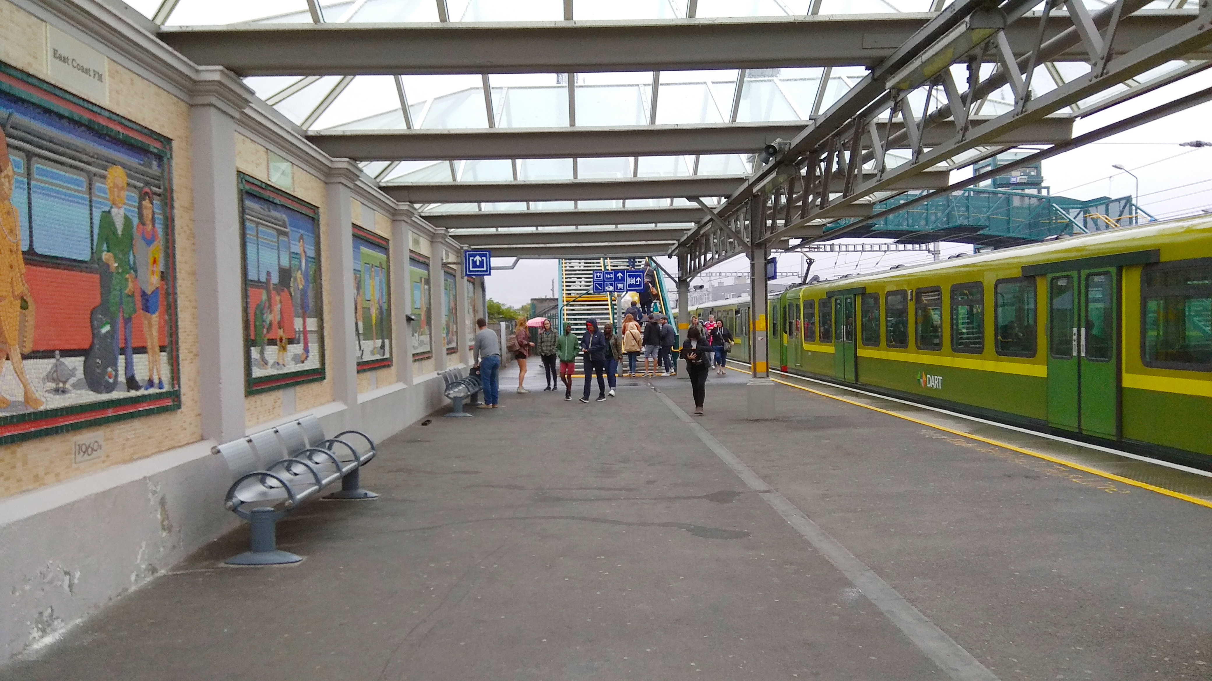 Bray Daly railway station